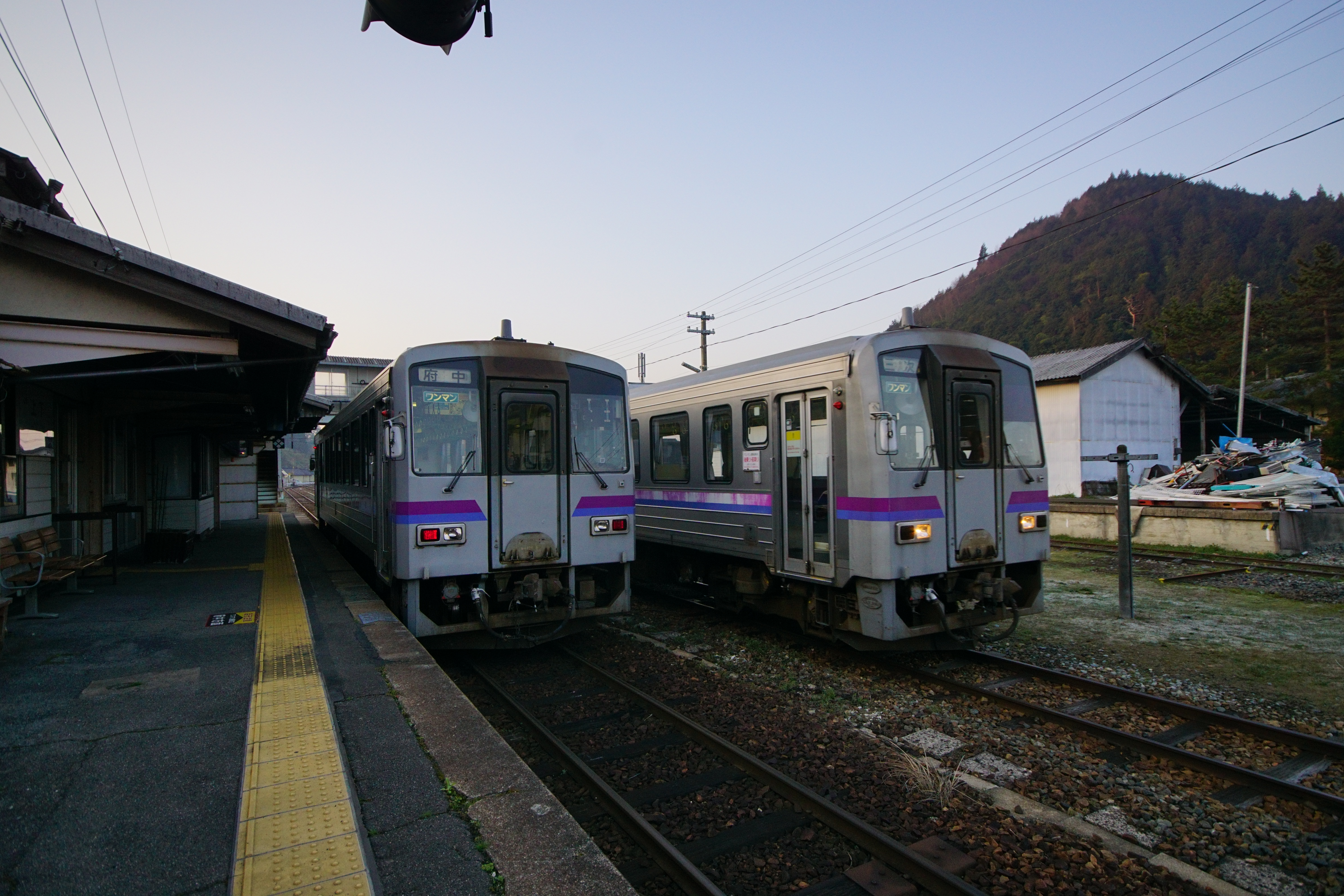 Trains at Jōge Station